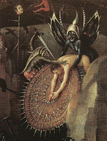 Herri met de Bles imagines what Hell may really be like.